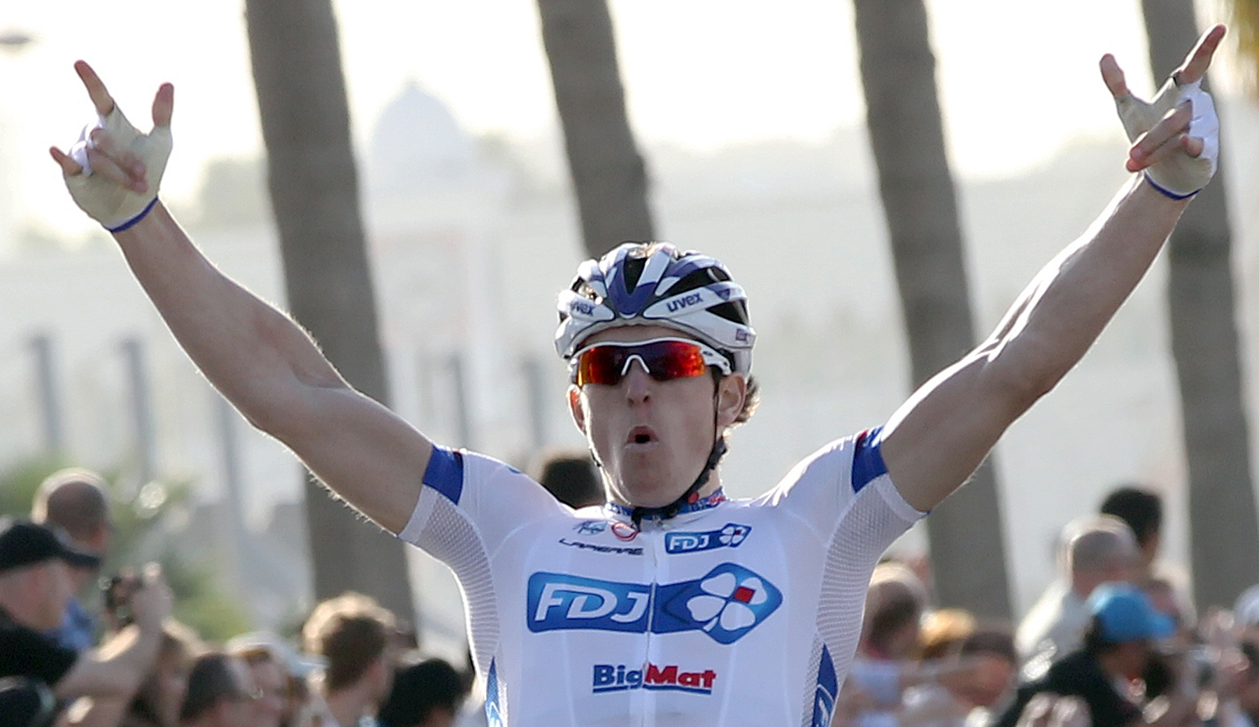 French rider Arnaud Demare exults after winning the final stage of the Tour of Qatar cycling at the Doha Corniche. Picture by Mohan